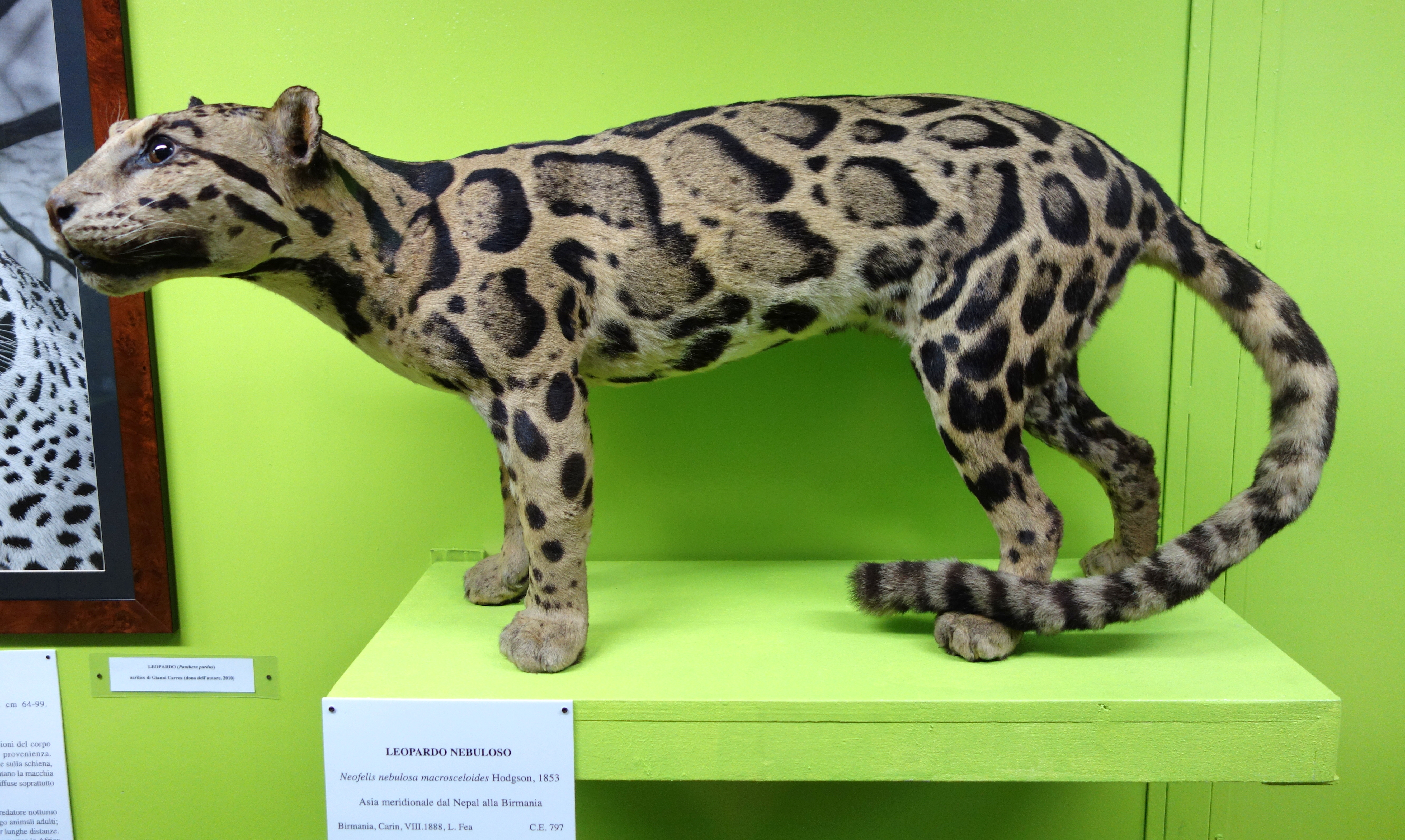 Exhibit in the Museo Civico di Storia Naturale di Genova, Via Brigata Liguria, 9, 16121, Genoa, Italy.